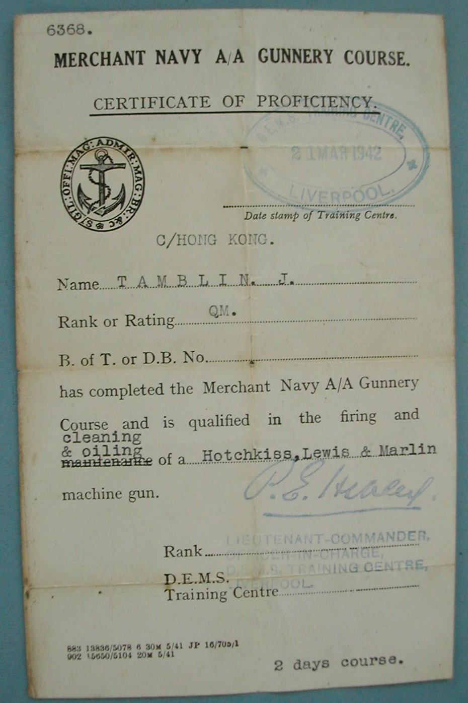 GunneryCertificate-MN